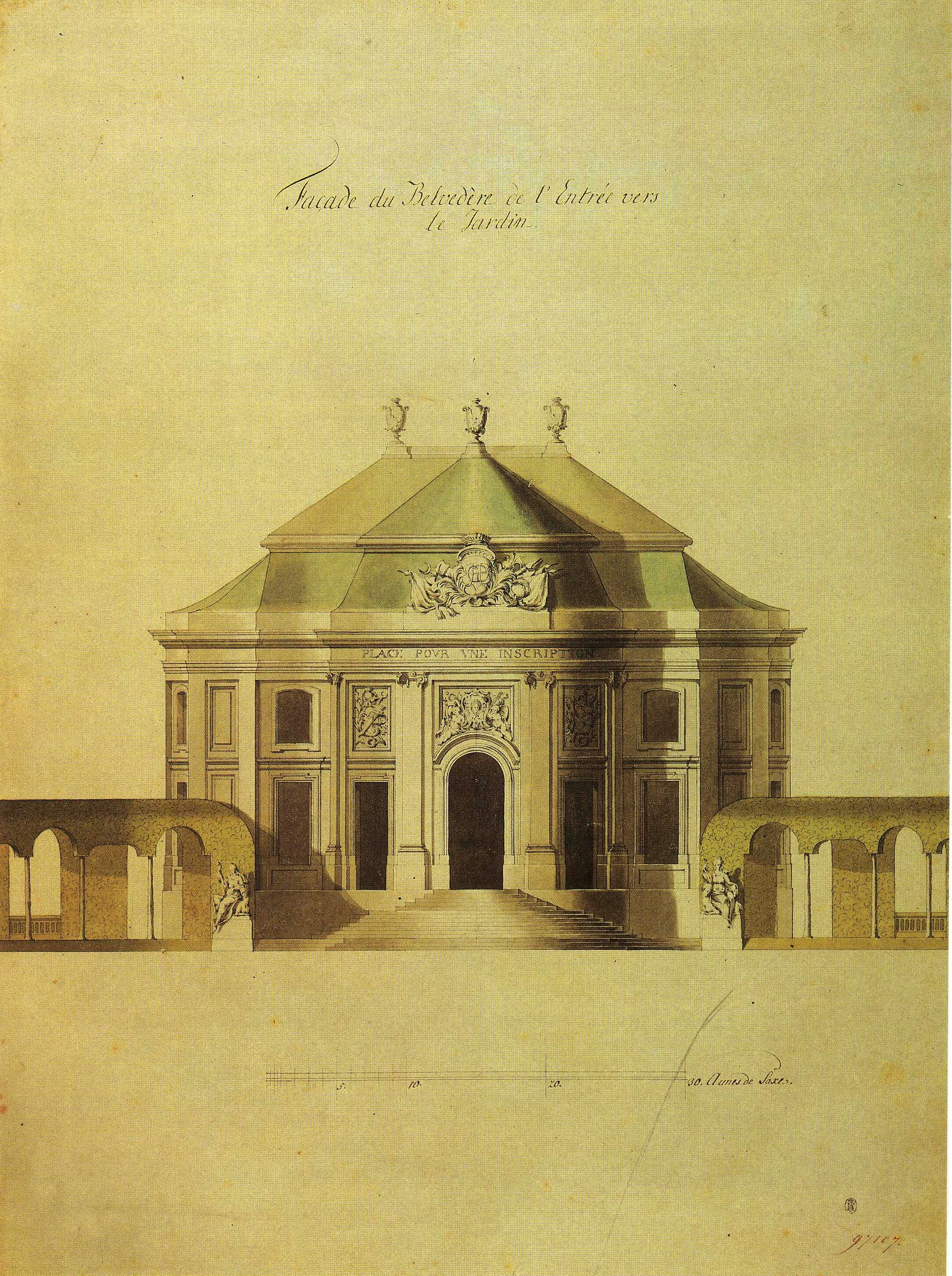 Zweites Belvedere